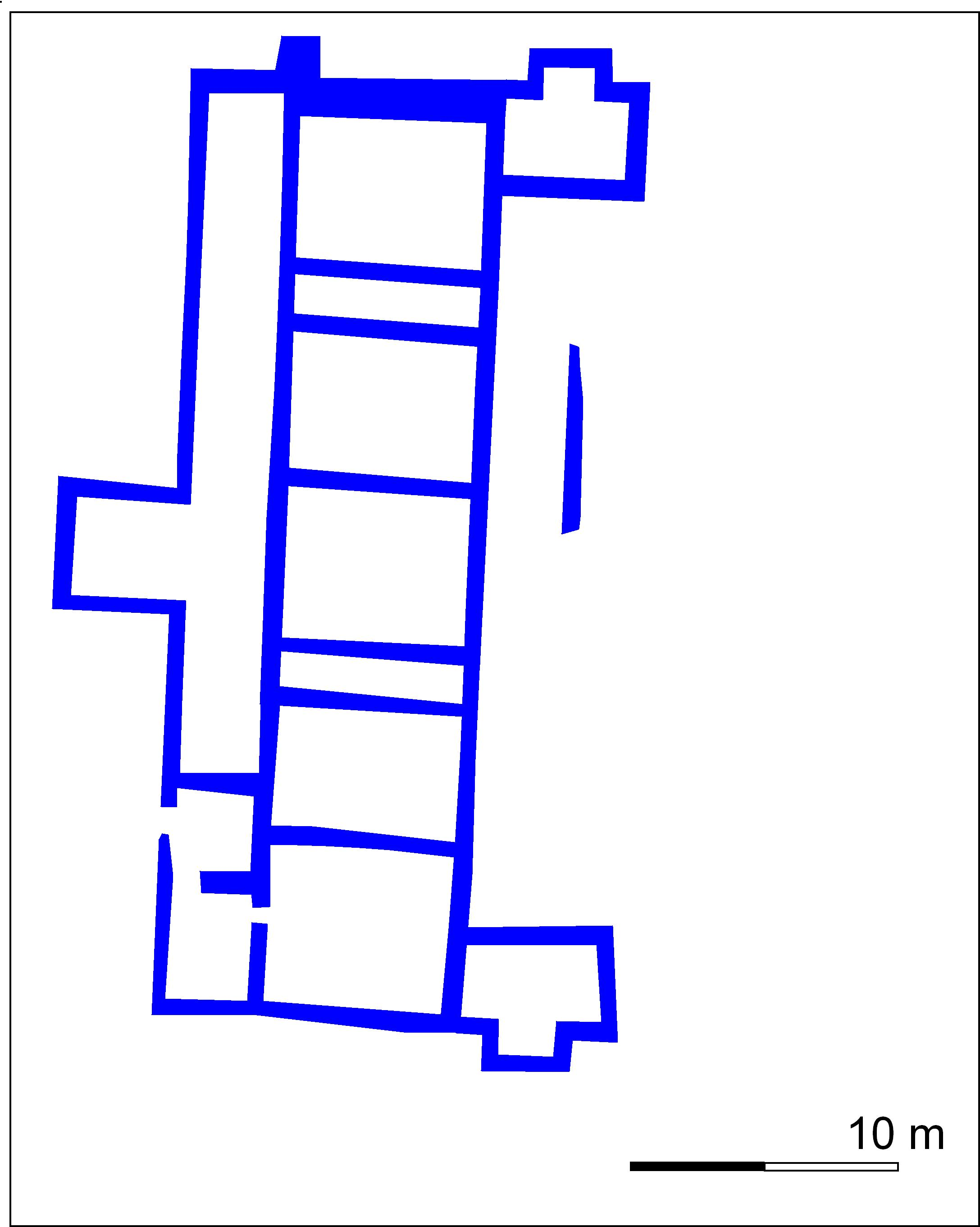 Plan of the Roman volla at Gorhambury, England, about end of 2nd and 3rd century AD, redrawn from Neal, Excavation of the Iron age, roman and medieval settlement at Gorhambury, St. Albans, 1990, fig. 48 on p. 38